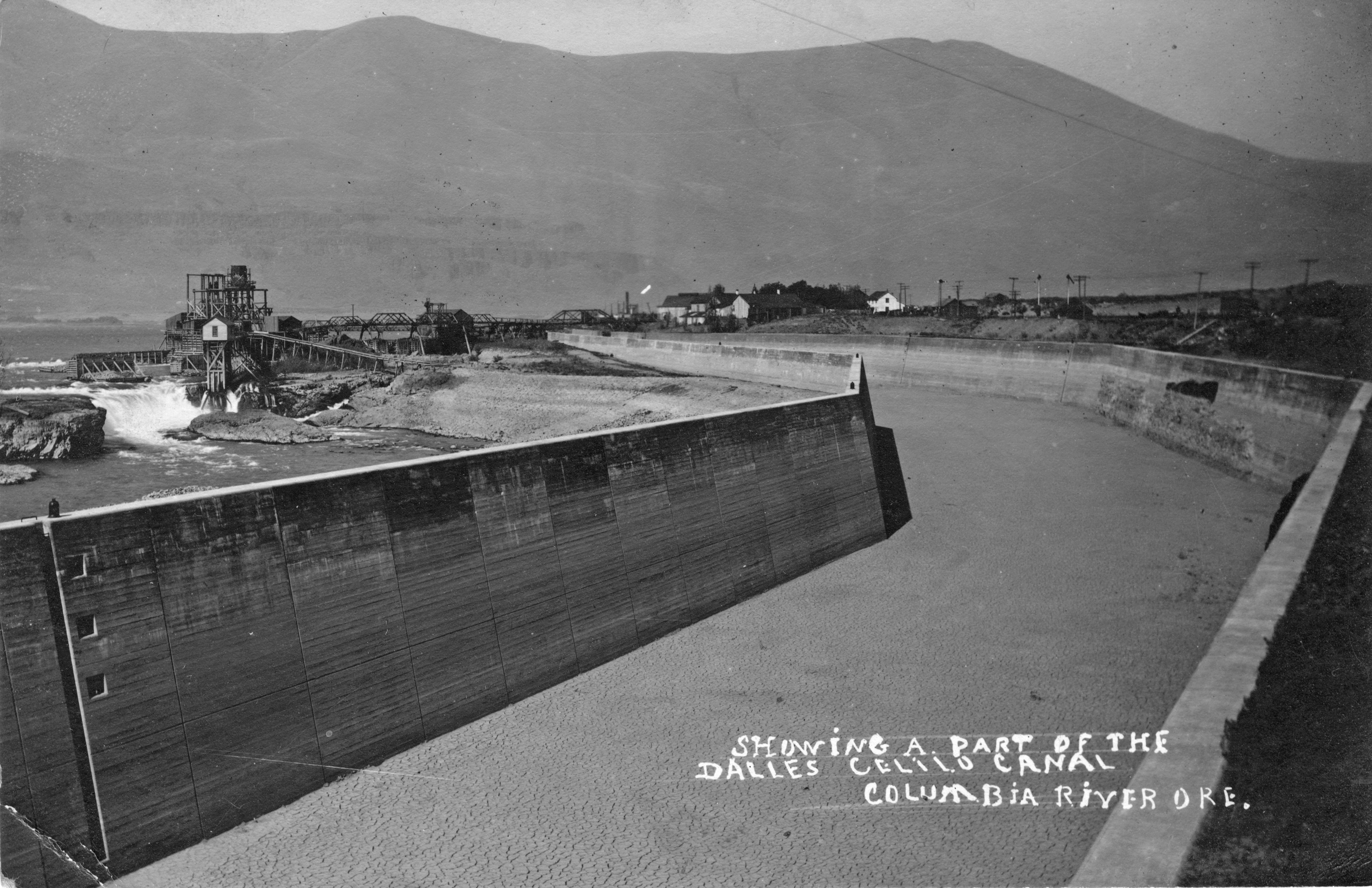 Image Title: The Dalles-Celilo Canal Date.Original: 1910-00-00 HUC: 17070105 Original Form: Postcards Original Collection: Gerald W. Williams Collection Collection series: Columbia River album Item Number: WilliamsG_CR Celilo canal Restrictions: Permission to use must be obtained from the OSU Archives. Transmission Data: Master scanned with Epson 1640XL scanner at 800 dpi., 8 bit gray scale. Image manipulated with Adobe Elements 4.0. Date.Digital: 2008-06-11 Contributing.Institution: Oregon State University Libraries Click here for further information or a high resolution copy of this image. Click here for more information on the Gerald W. Williams collection. Click here to view Oregon State University's other digital collections. We're happy for you to share this digital image within the spirit of The Commons; however, certain restrictions on high quality reproductions of the original physical version may apply. To read more about what ?no known restrictions? means, please visit the OSU Archives website.